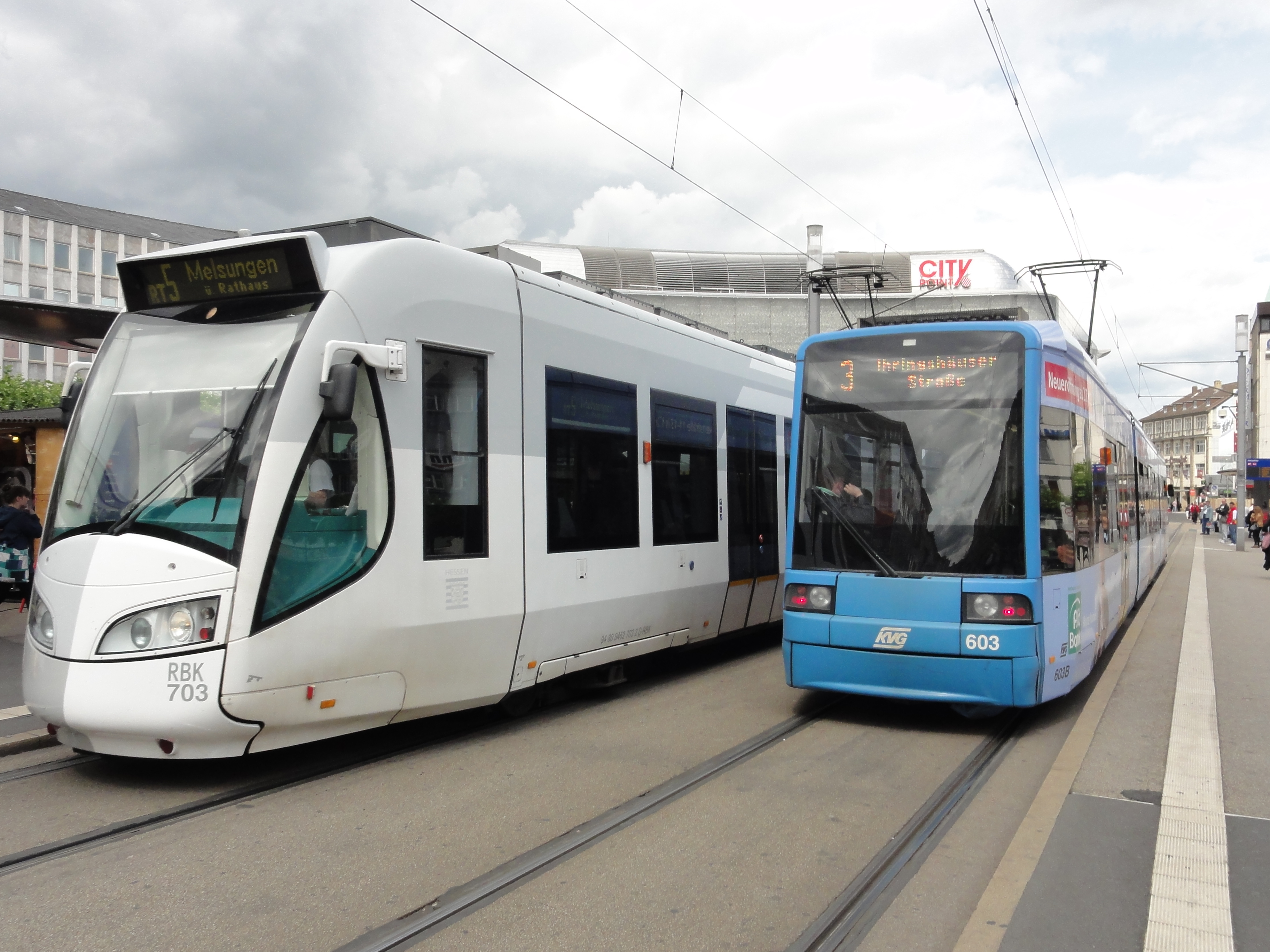 RBK Tram-Train 703 next to KVG tram 603